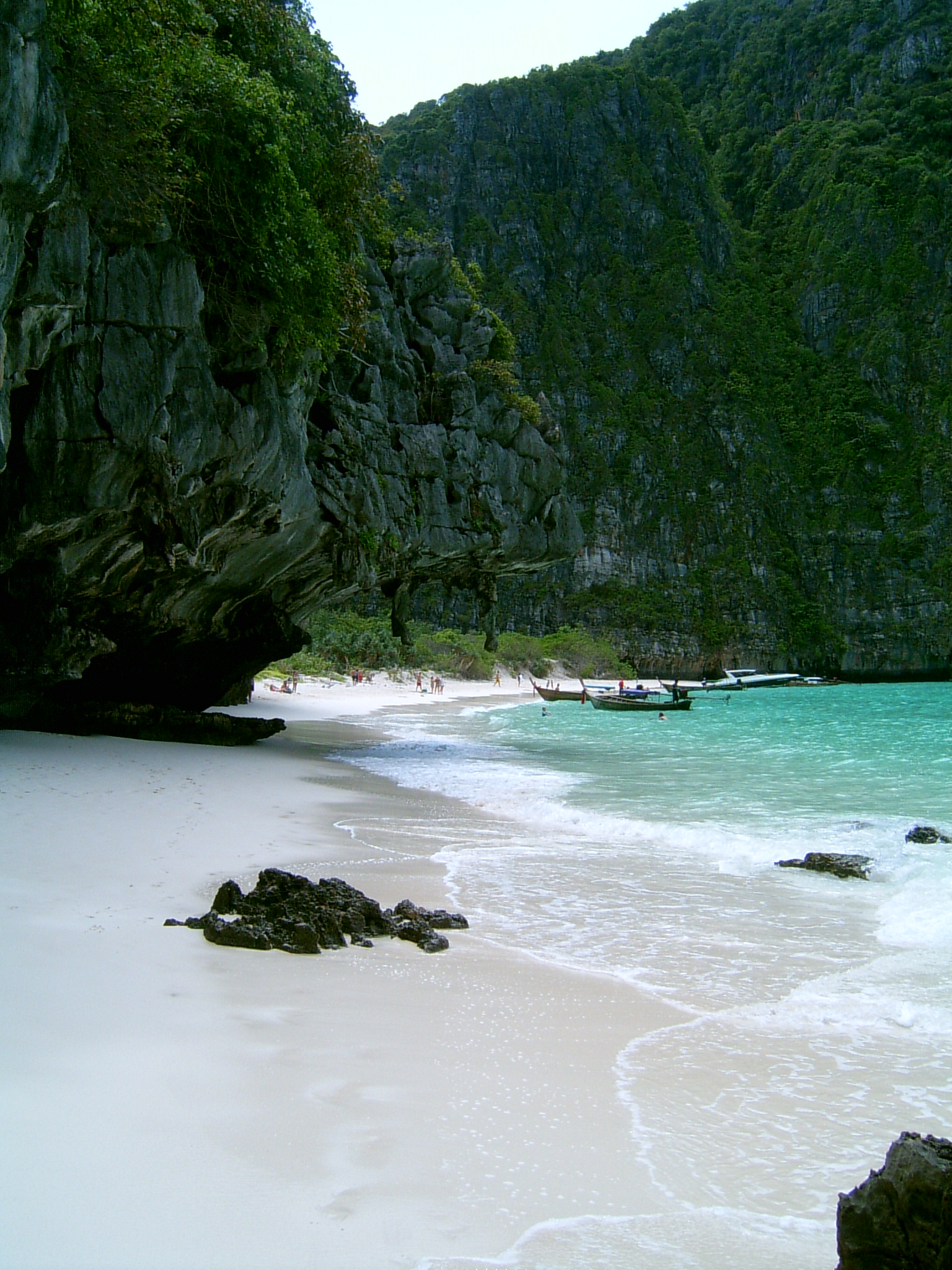 Maya beach on Ko Phi Phi Lee in Thailand.